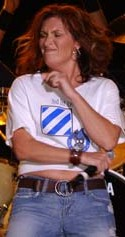 Subject: Jo Dee Messina Photographer: SPC Jimmy D. Lane Date Taken: October 4, en:2003 Image URL: Page URL